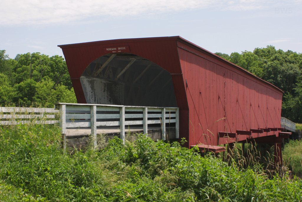 Roseman Covered Bridge, Madison County, Iowa, USA